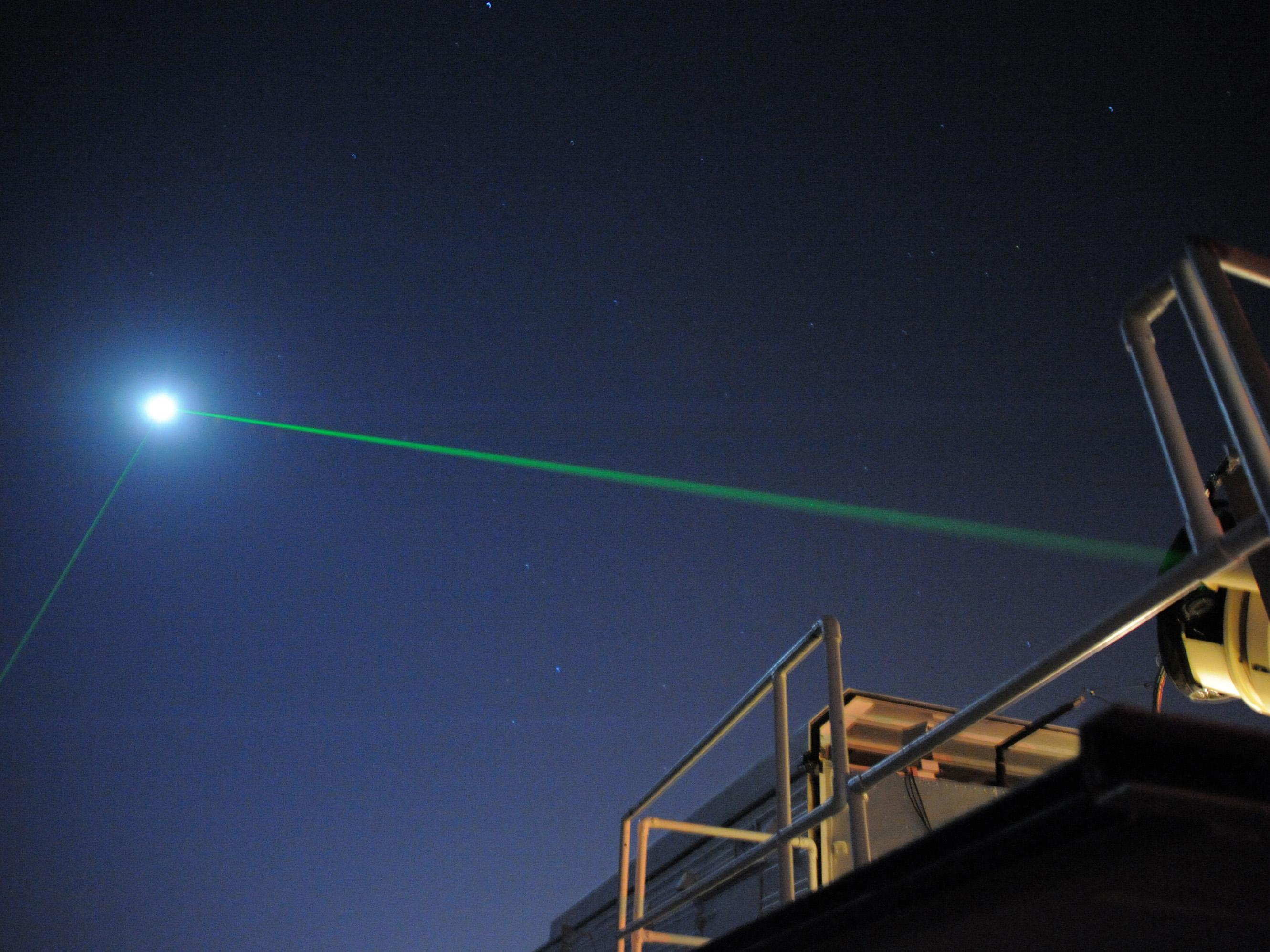 This photograph shows the Laser Ranging Facility at the Geophysical and Astronomical Observatory at NASA's Goddard Spaceflight Center in Greenbelt, Md. The observatory helps NASA keep track of orbiting satellites. In this image, the lowerforeground? of the two green beams is from the Lunar Reconnaissance Orbiter's dedicated tracker. The other laser-beam originates from another ground system at the facility. Both beams are pointed at the LRO in orbit.